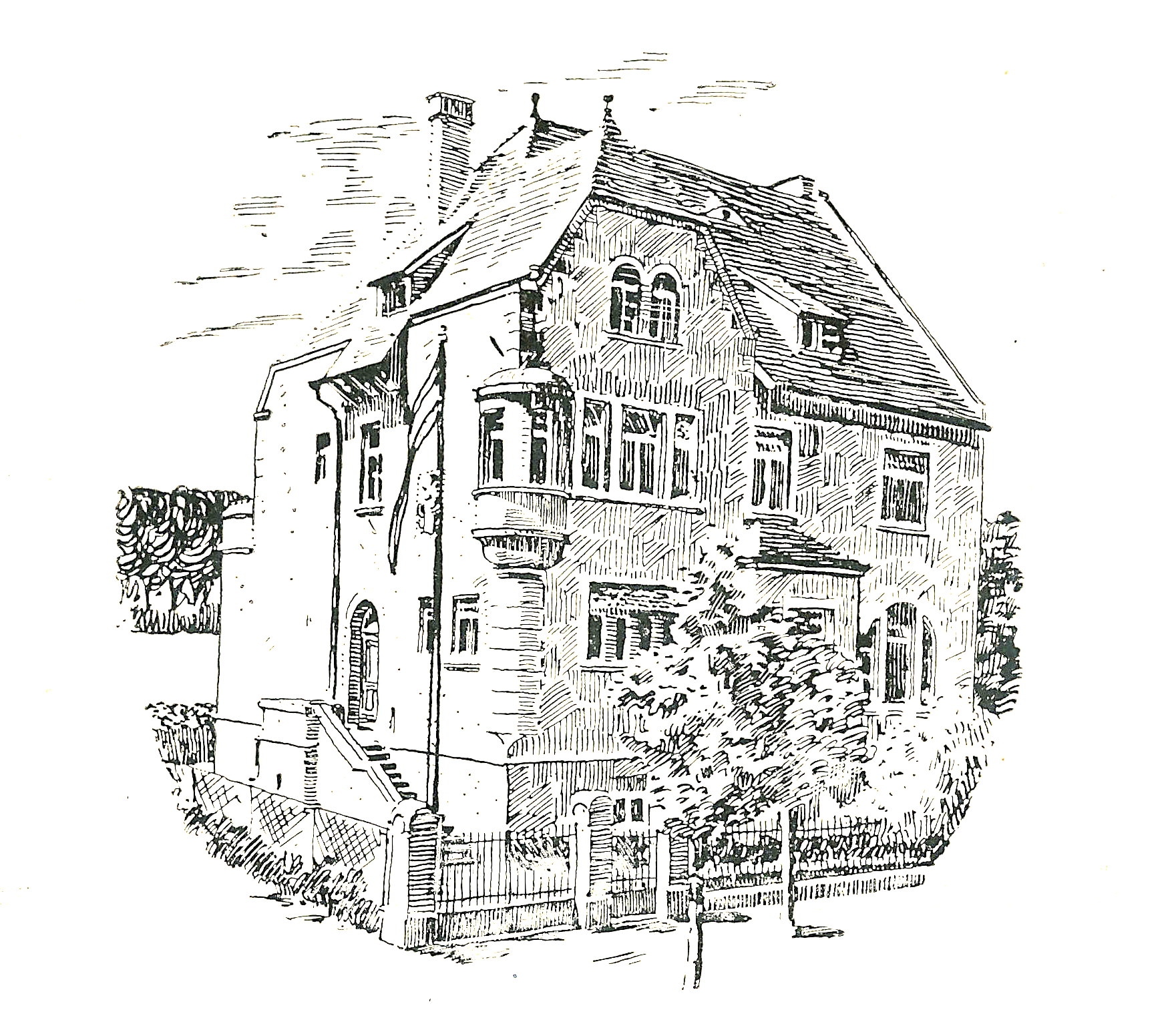 Former house of student fraternity Corps Borussia Halle, Burgstrasse 41 in Halle on the Saale, Saxony-Anhalt/Germany